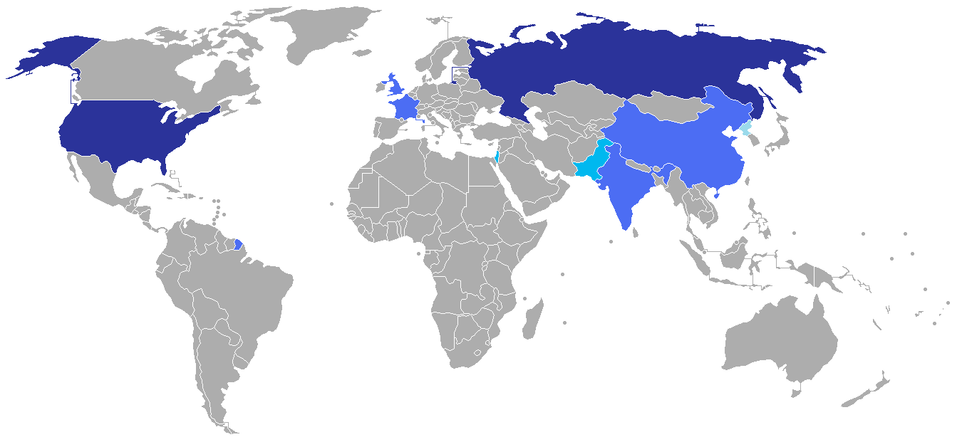 World nuclear weapons: Large stockpile with global range (Russia and the United States) Smaller stockpile with global range (China, India, Israel, France, and the United Kingdom) Small stockpile with regional range (North Korea and Pakistan)